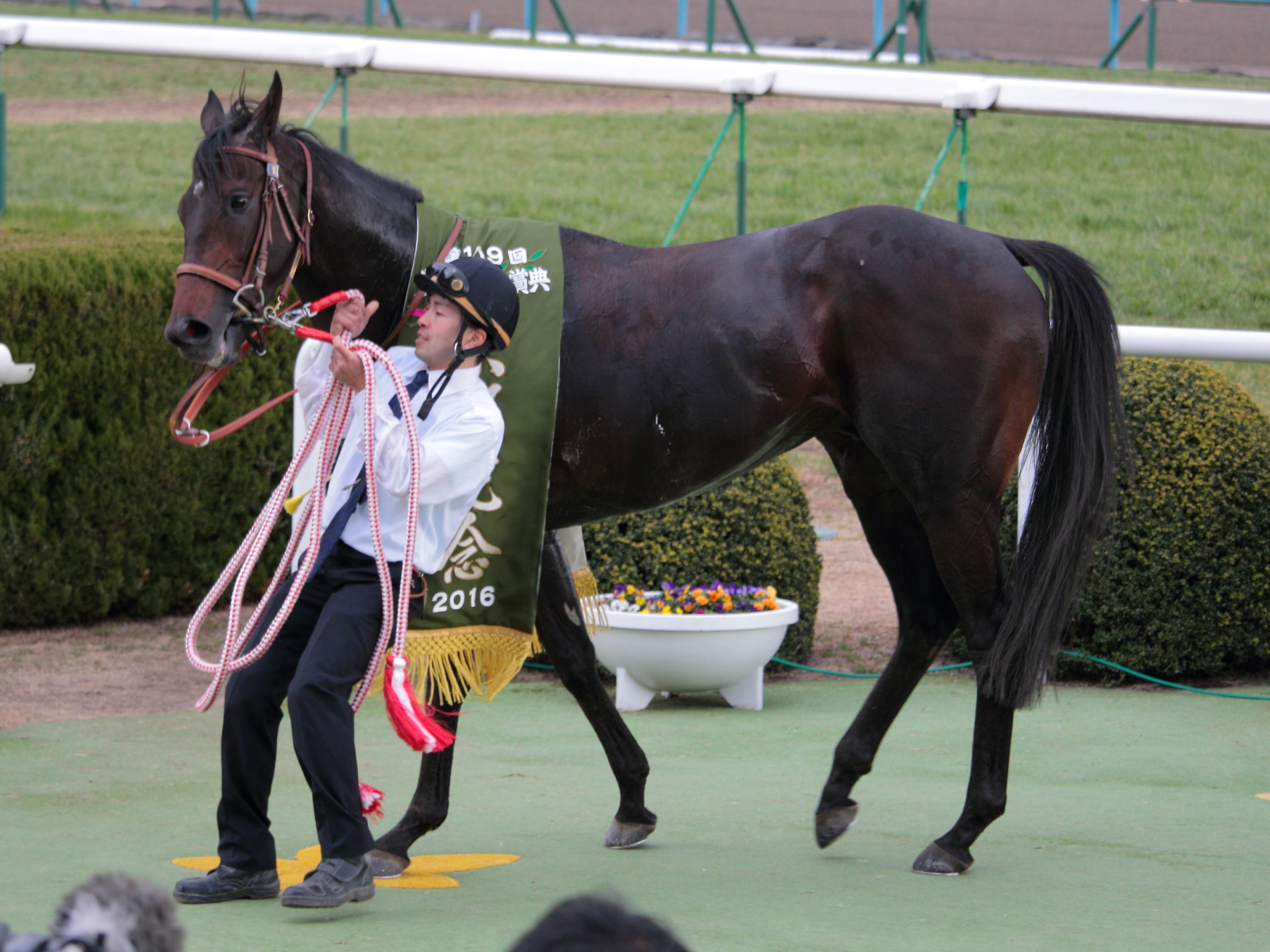 Satono Crown (Racehorse of Japan).